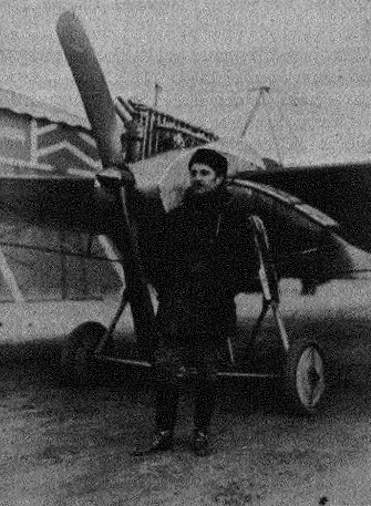 Emile Jeannin, French-German pioneer aviator